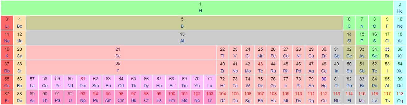 Periodic table extended to define the properties in the context of lanthanides, actinides, yttrium, scandium, aluminum, boron, hydrogen